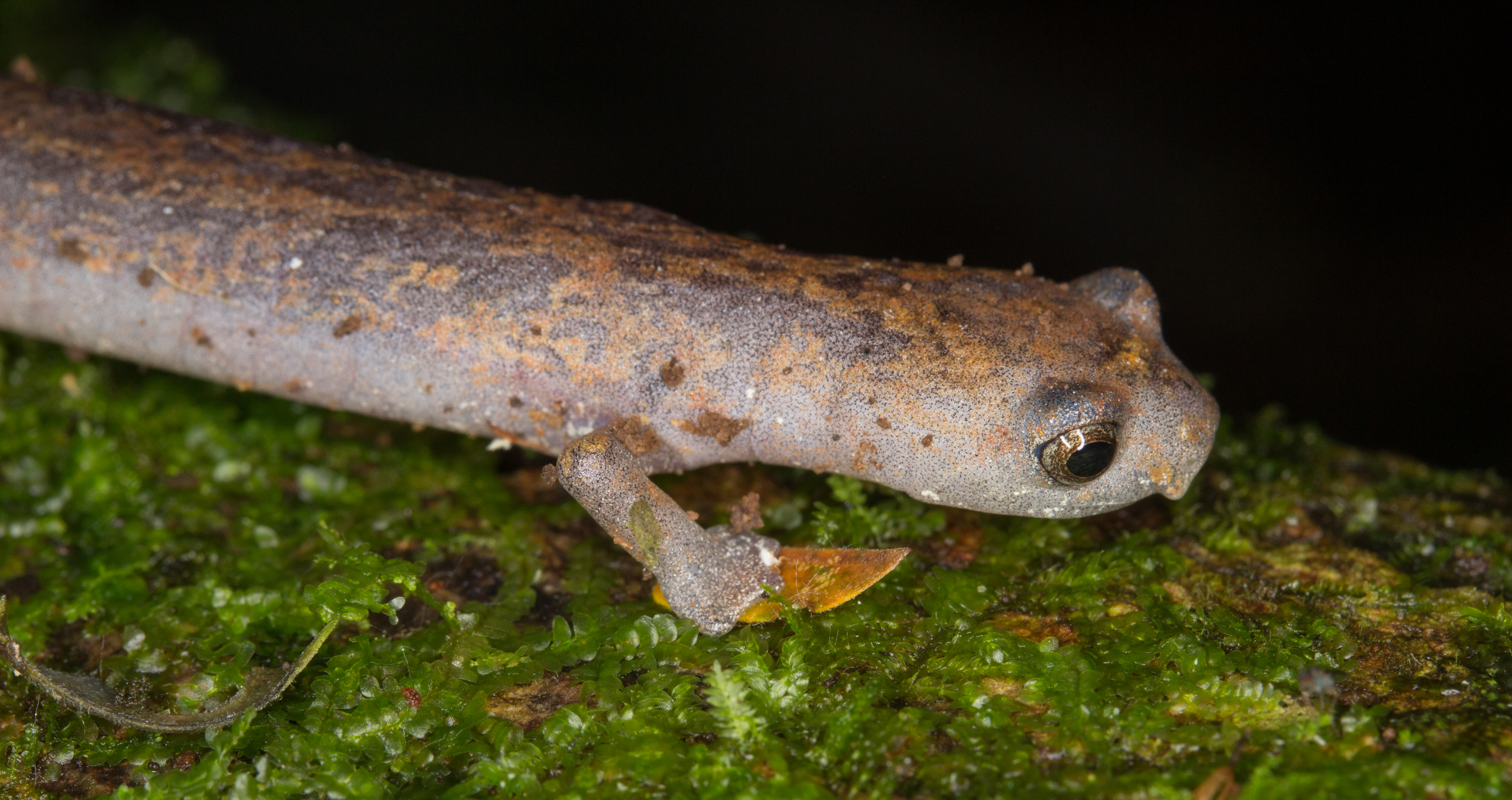 Similar to a RIdge-Headed Salamanda